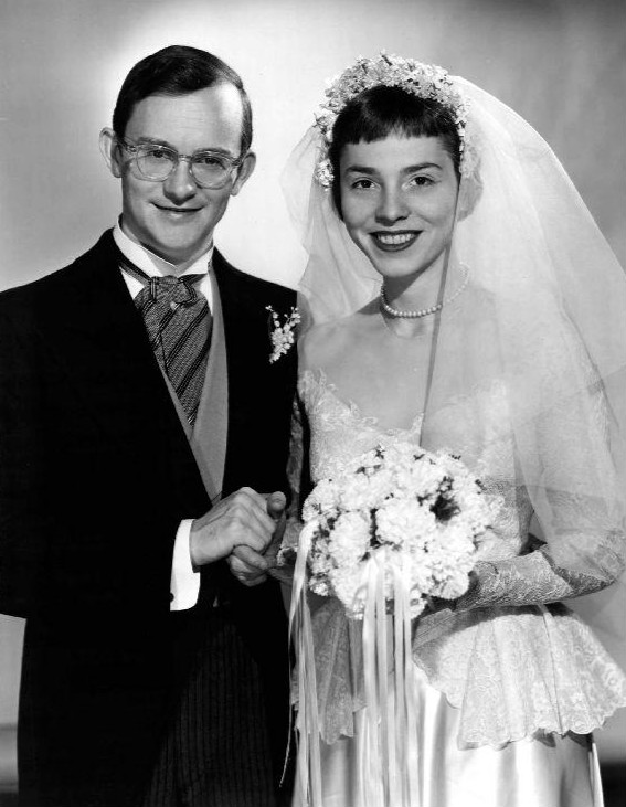 Photo of Wally Cox as Mr. Peepers and Patricia Benoit as Nancy Harrington. The publicity photo is for the television wedding of the couple from the television program Mr. Peepers.